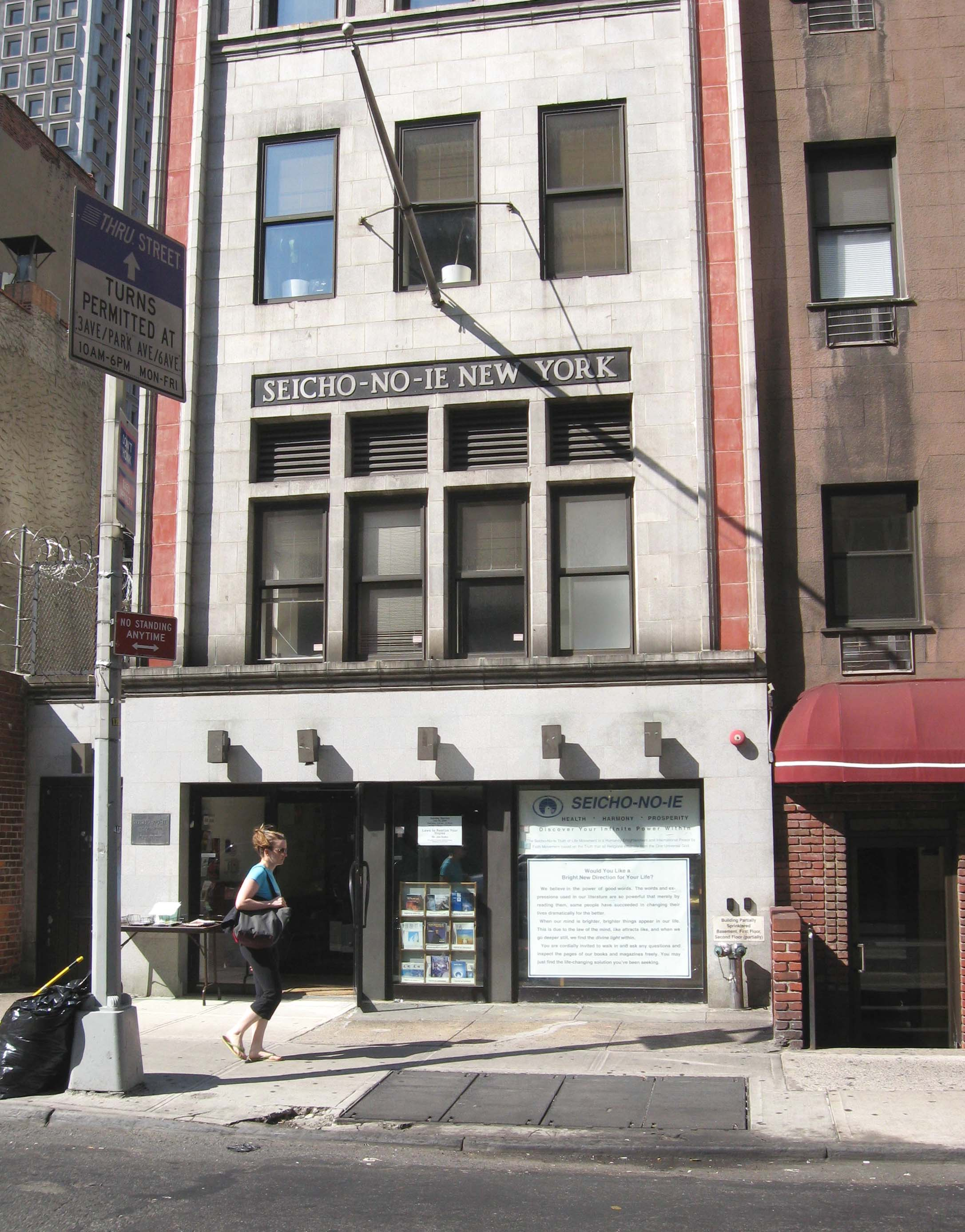 HQ of Seicho-no-ie New York on East 53d Street Manhattan